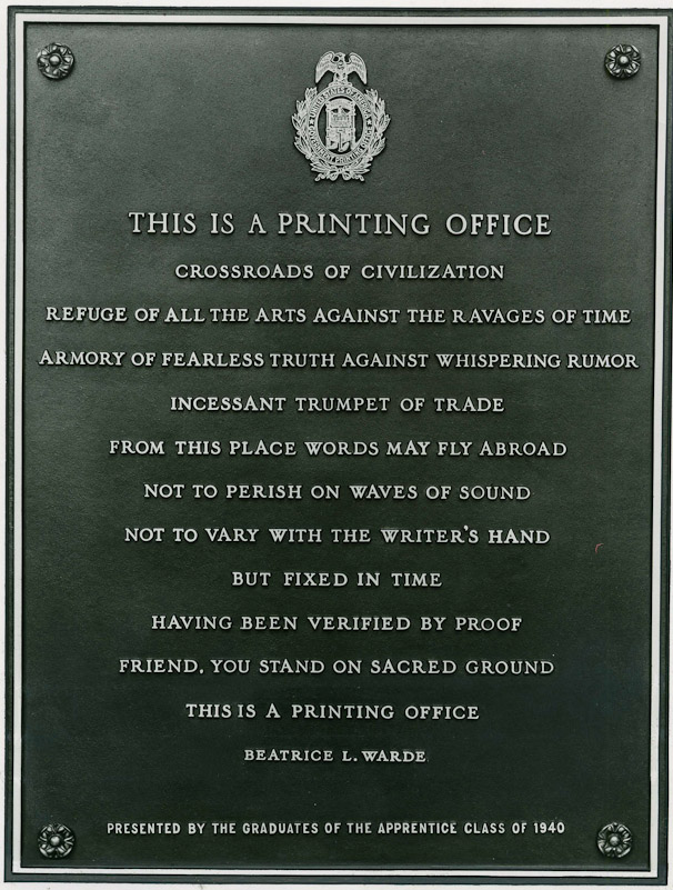 Beatrice Warde penned her famous broadside This is a Printing Office, to show this typeface off. It has since been found on the walls of numerous printing offices, has been cast in bronze and is mounted at the entrance to the United States Government Printing Office in Washington, D. C.